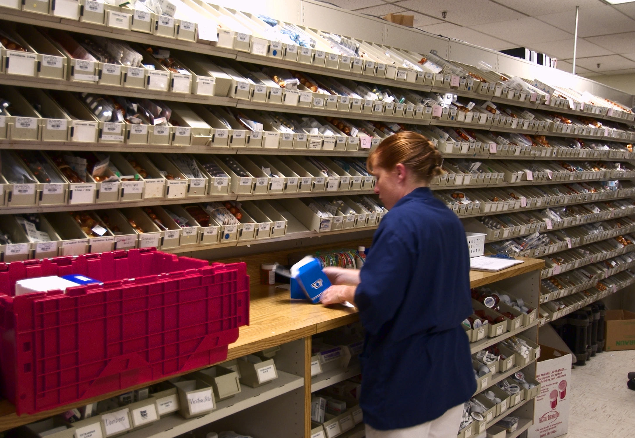 National Naval Medical Center, Bethesda, Md., (Aug. 19, 2003) -- A Navy hospital corpsman unwraps medication to replenish one of the hundreds of bins in the pharmacy at the National Naval Medical Center in Bethesda, Maryland. U.S. Navy photo by Chief Warrant Officer 4 Seth Rossman. (RELEASED)